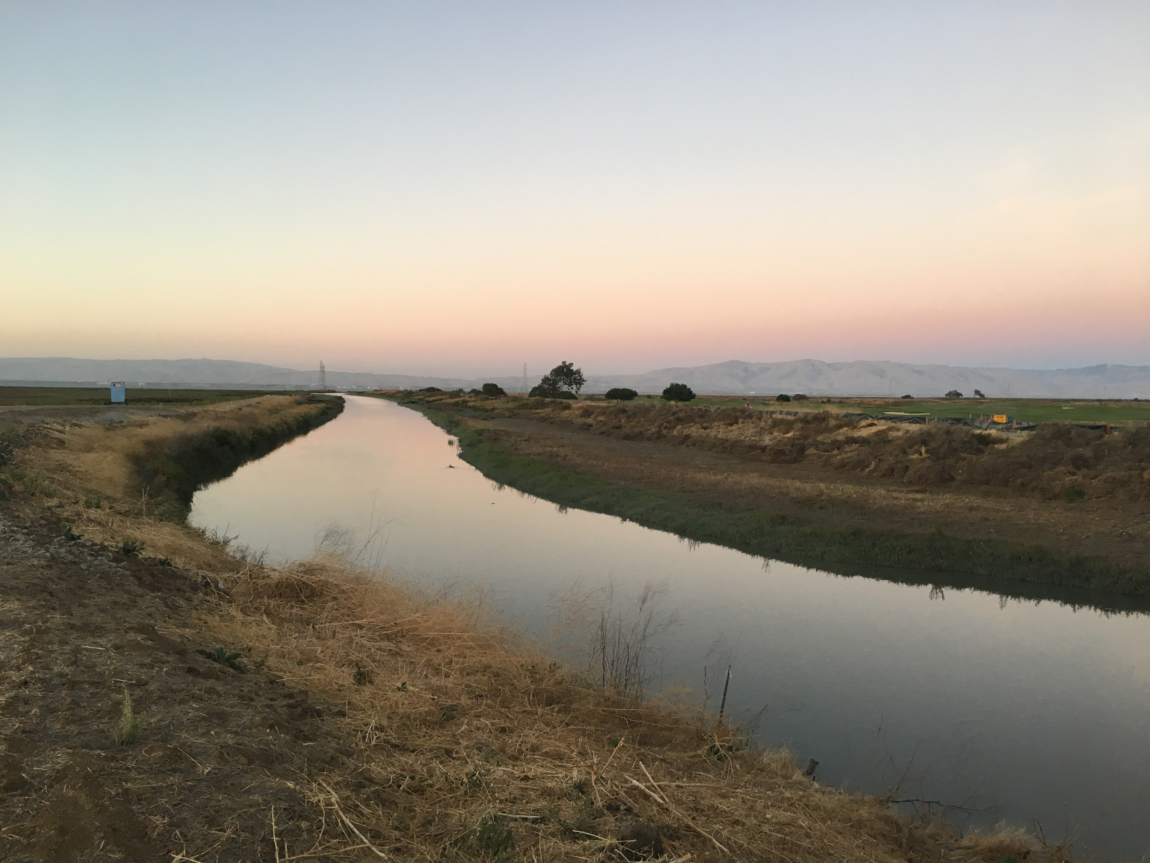 San Francisquito Creek which divides East Palo Alto and Palo Alto